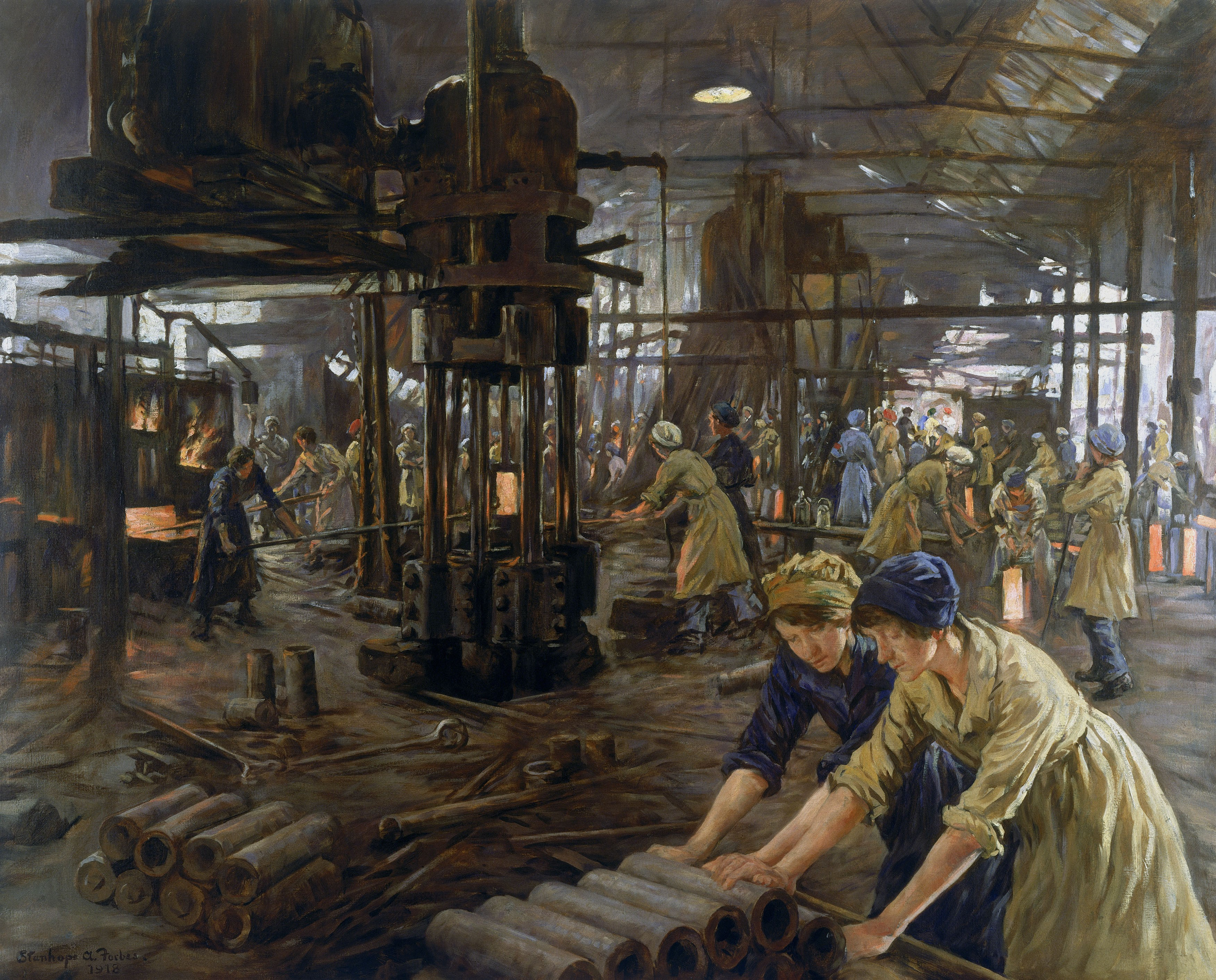 Commissioned by John Baker & Co, this famous oil painting, entitled ‘The Munitions Girls’, shows women working at Kilnhurst Steelworks during the First World War. The artist was Alexander Stanhope Forbes (1857-1947). Like many other steelworks during the war, John Baker & Co’s Kilnhurst site was converted to make shells and ammunition. As men volunteered or were conscripted to fight in the British Army, women became the main work force in industry and farming. Munitions workers could often be picked out in a crowd because of the distinctive yellow colouring of their hair and skin caused by the sulphur used in production. They were nicknamed ‘canaries’